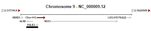 antisense spliced gene POLE